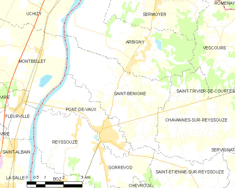 Map of French commune: Saint-Bénigne Map commune FR insee code 01337.png